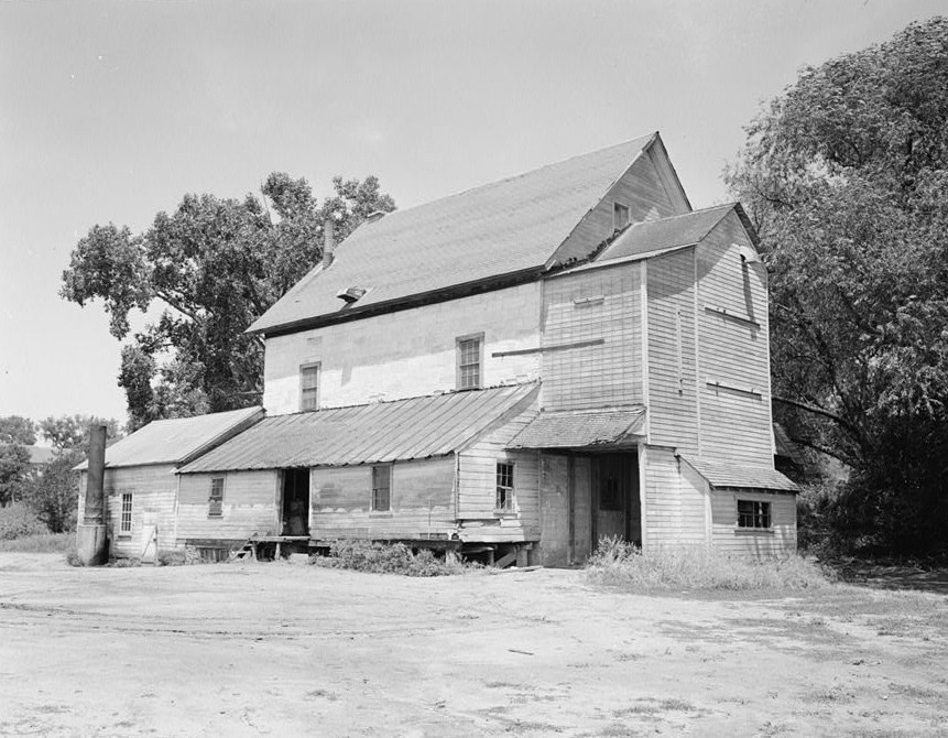 Bon Homme Mill, Gavins Point Reservoir Vicinity, Tabor (Bon Homme County, South Dakota) cropped This file comes from the Historic American Buildings Survey (HABS), Historic American Engineering Record (HAER) or Historic American Landscapes Survey (HALS). These are programs of the National Park Service established for the purpose of documenting historic places. Records consist of measured drawings, archival photographs, and written reports. When reusing please credit: Library of Congress, Prints & Photographs Division, SD,5-TABOR,1-1 This tag does not indicate the copyright status of the attached work. A normal copyright tag is still required. See Commons:Licensing for more information. This work is in the public domain in the United States because it is a work prepared by an officer or employee of the United States Government as part of that person’s official duties under the terms of Title 17, Chapter 1, Section 105 of the US Code. See Copyright. Note: This only applies to original works of the Federal Government and not to the work of any individual U.S. state, territory, commonwealth, county, municipality, or any other subdivision. This template also does not apply to postage stamp designs published by the United States Postal Service since 1978. (See § 313.6(C)(1) of Compendium of U.S. Copyright Office Practices). It also does not apply to certain US coins; see The US Mint Terms of Use. This file has been identified as being free of known restrictions under copyright law, including all related and neighboring rights. Object location42° 51′ 46″ N, 97° 42′ 23″ W